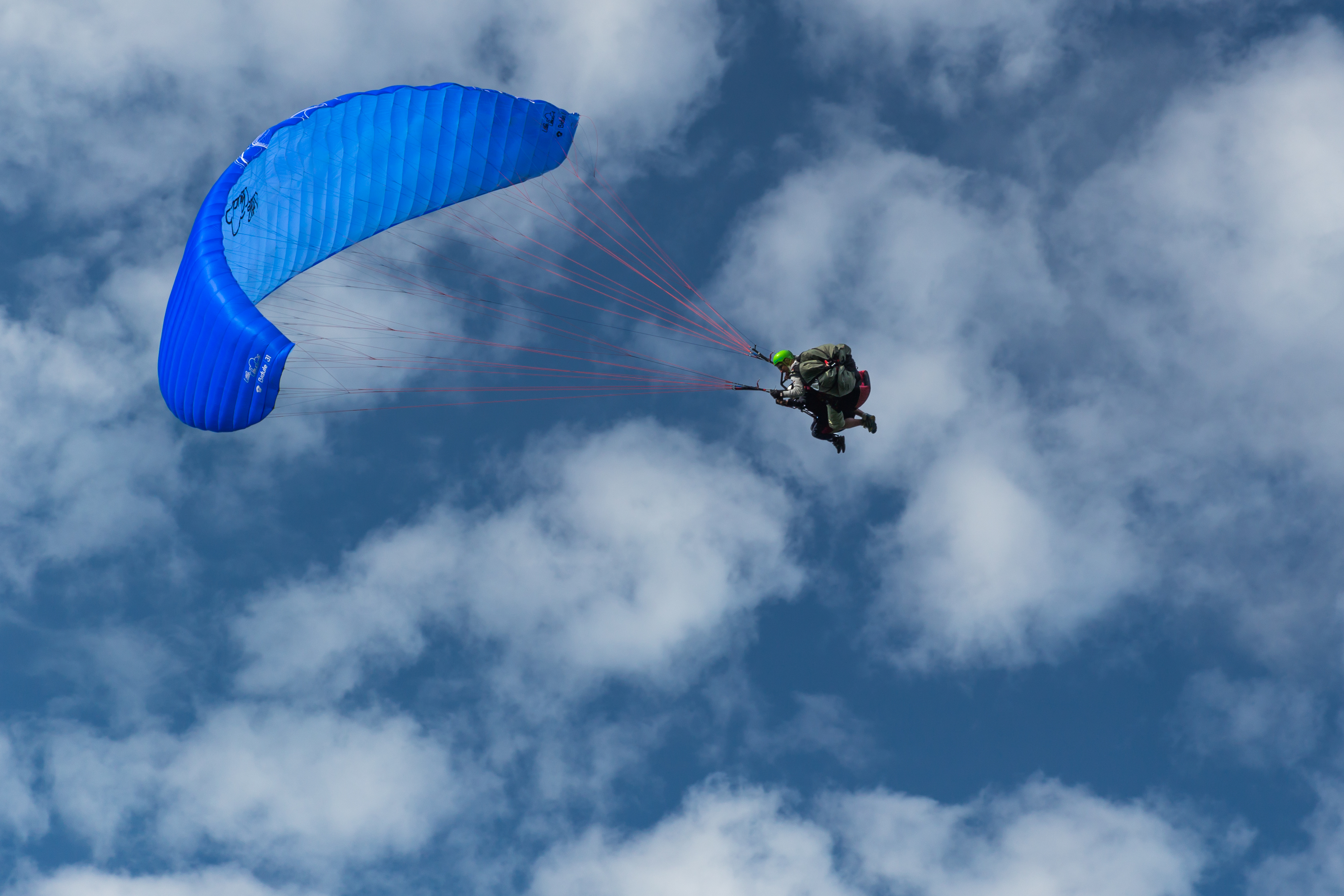 Duo paragliding flight in the puy de Dôme, France.